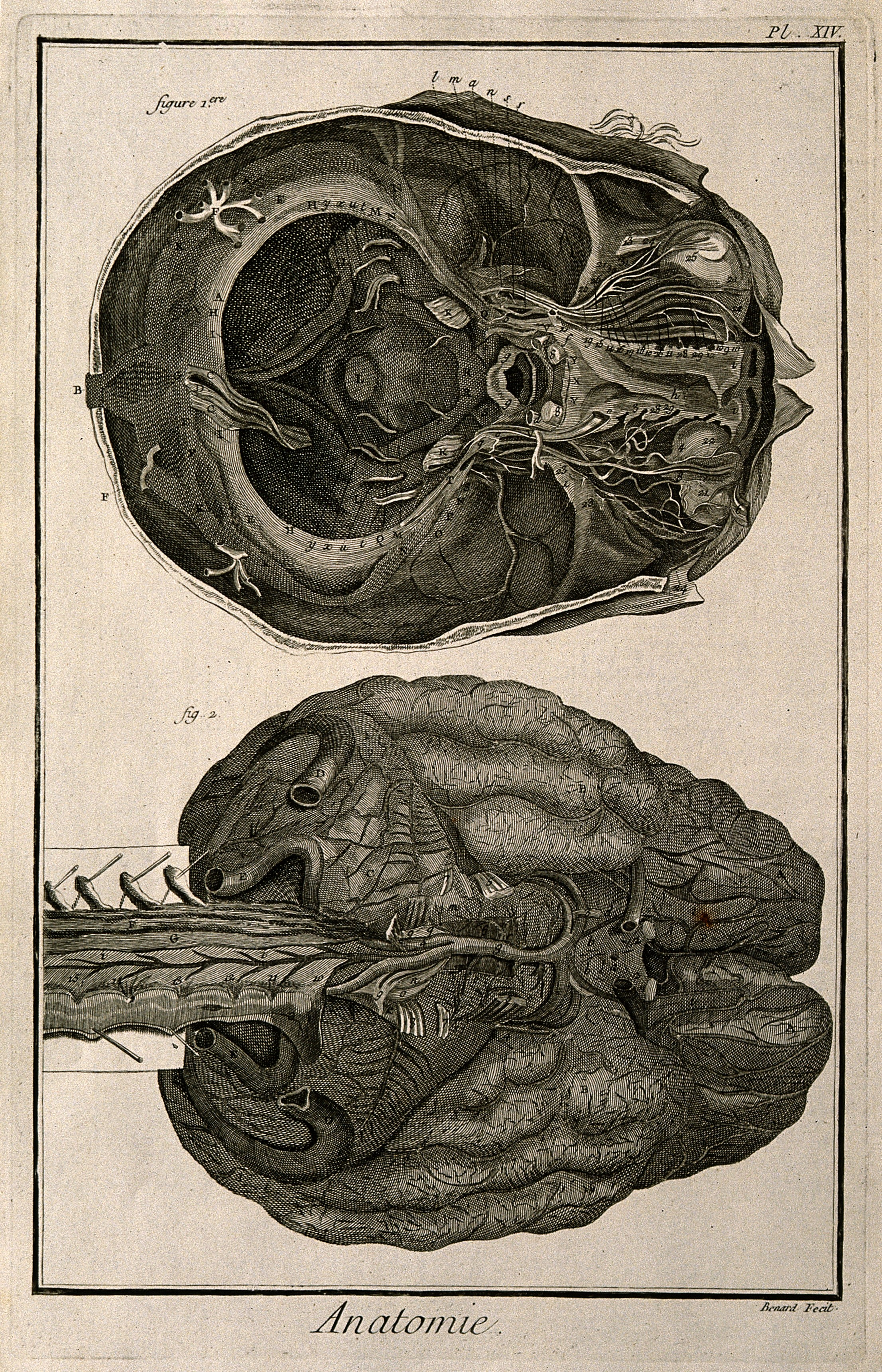 The brain, after Haller and Ridley. Engraving by Benard, late 18th century. Iconographic Collections Keywords: Humphrey Ridley; William Cowper; Albrecht von Haller; Jean Le Rond d' Alembert; Robert Bénard; Denis Diderot